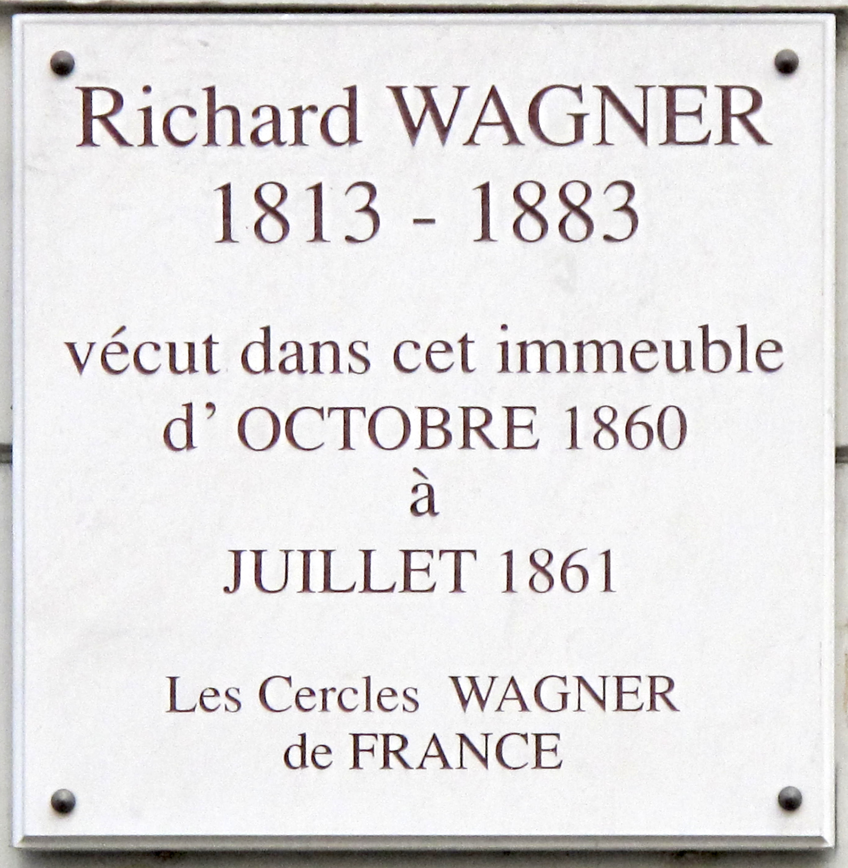 Building where lived Richard Wagner in Paris : 3, rue d'Aumale, 9th arrond.